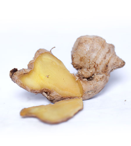 ginger